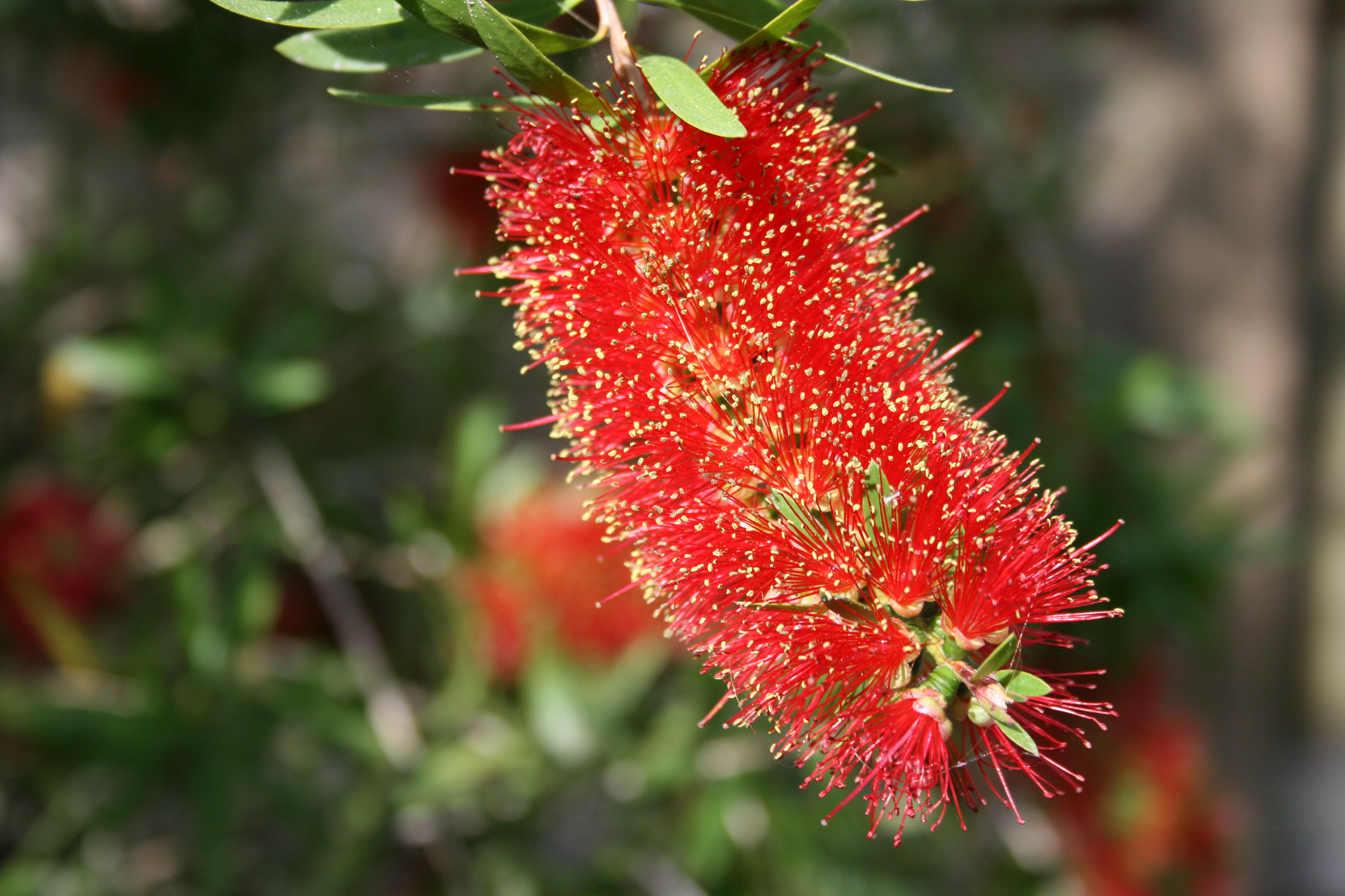 Photo of a flower of an unidentified Myrtaceae species Button Bush. Taken in northern Florida, USA.